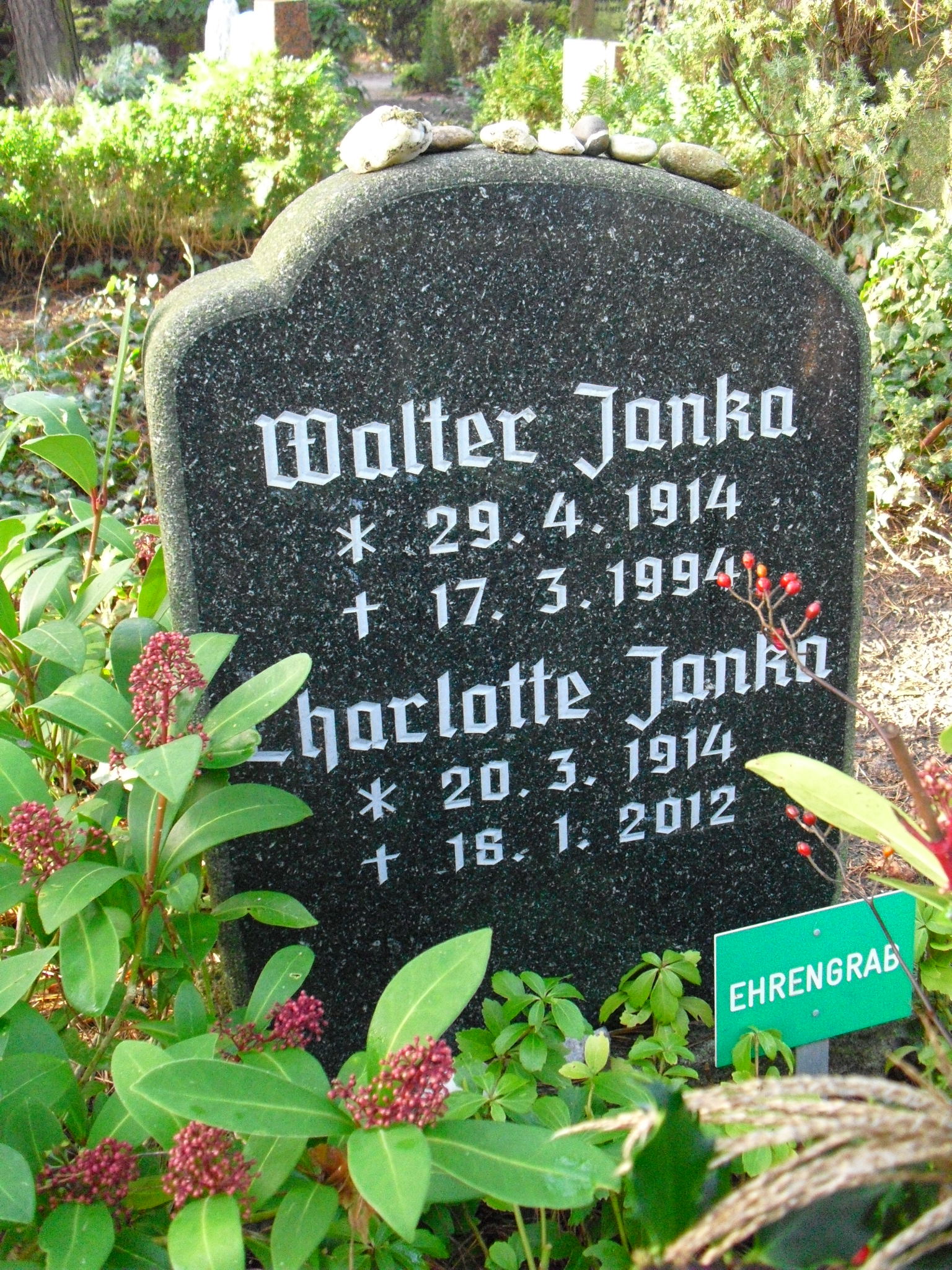 Grave of German political activist, writer and publisher Walter Janka in Waldfriedhof Kleinmachnow in Kleinmachnow near Berlin